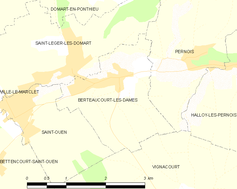 Map of French municipality Berteaucourt-les-Dames